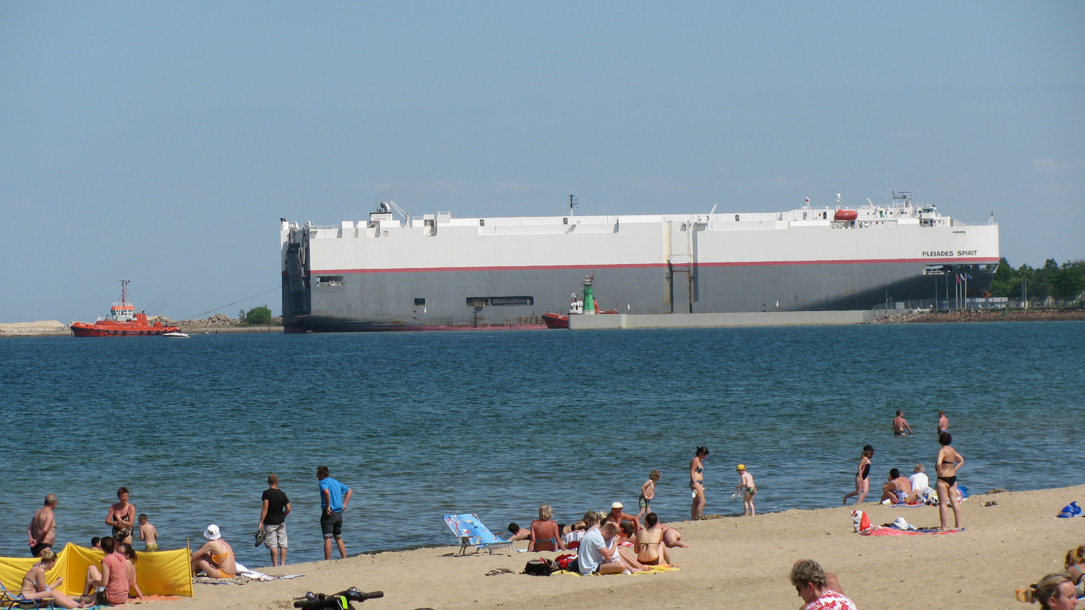 "Pleiades spirit" leaving the Gdańsk harbour (Poland).